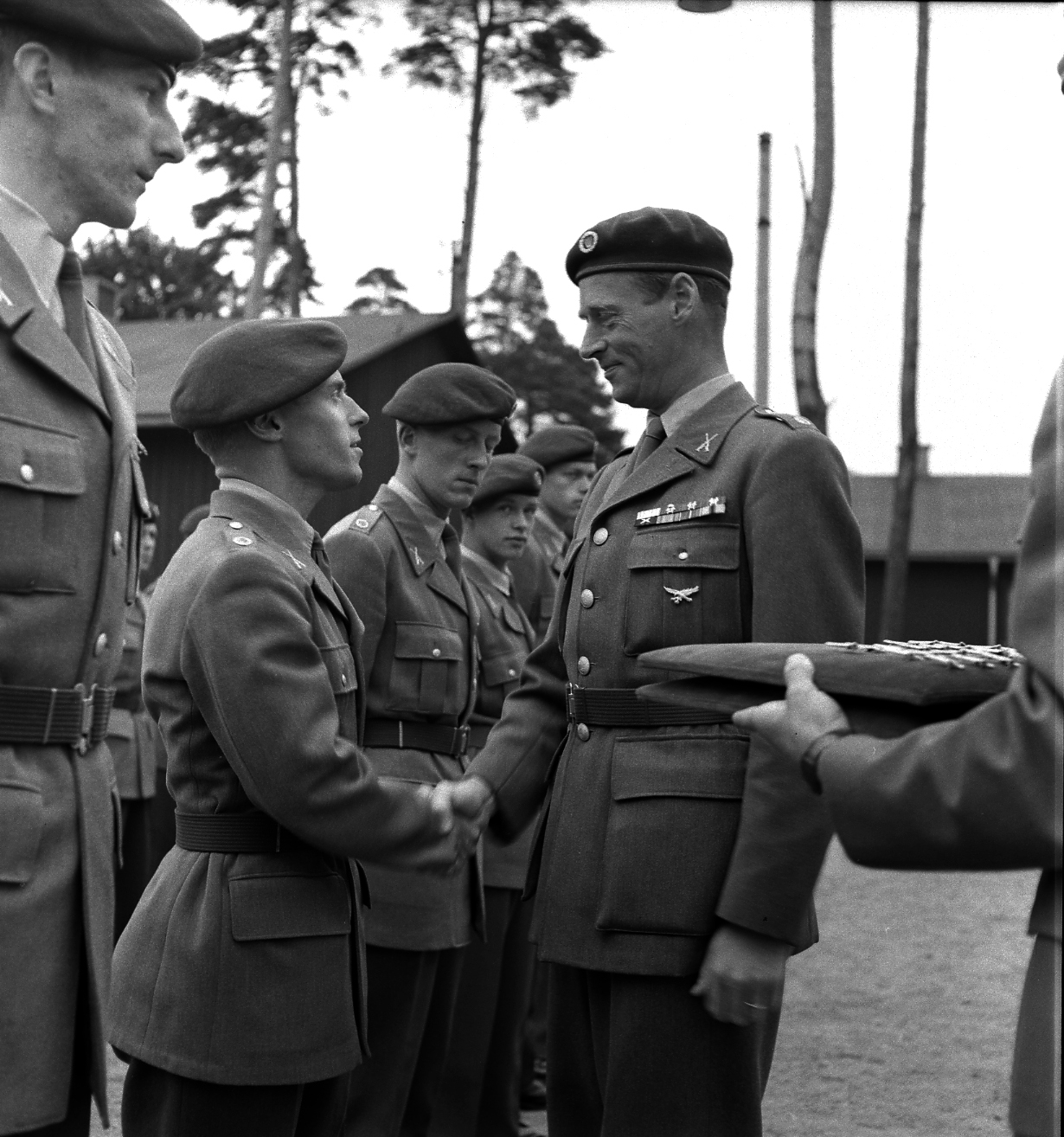 Swedish Army Paratroop School in Karlsborg 1958. Örnparad ("Eagle Parade"). School chief Captain Carl-Olof Wrang awards the Örnen ("Eagle").